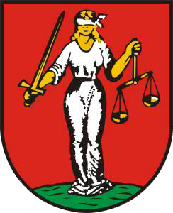 Coat of arms of Lipová, county Děčín